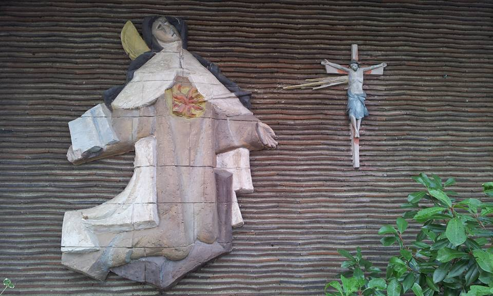 Sculpture of Saint Teresa of Ávila, Châtenay-Malabry, France